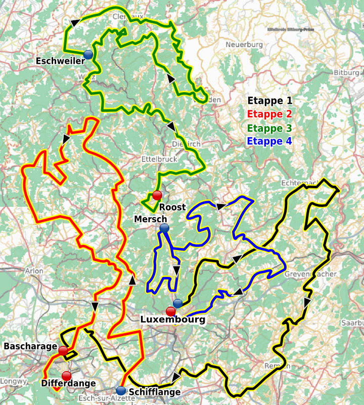 Course of Tour of Luxembourg